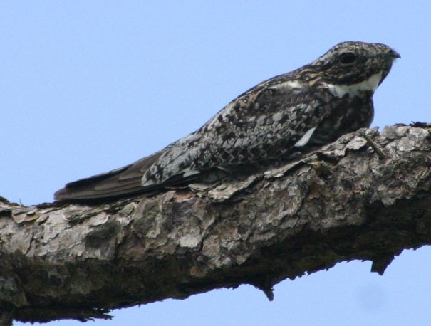 Common Nighthawk near Miami Florida